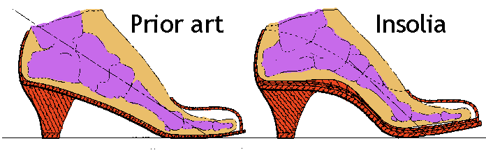 The Insolia patent illustrated. Original: U.S. patent 5,782,015. Modified and colorized by Toytoy. Converted to PNG by Fibonacci.